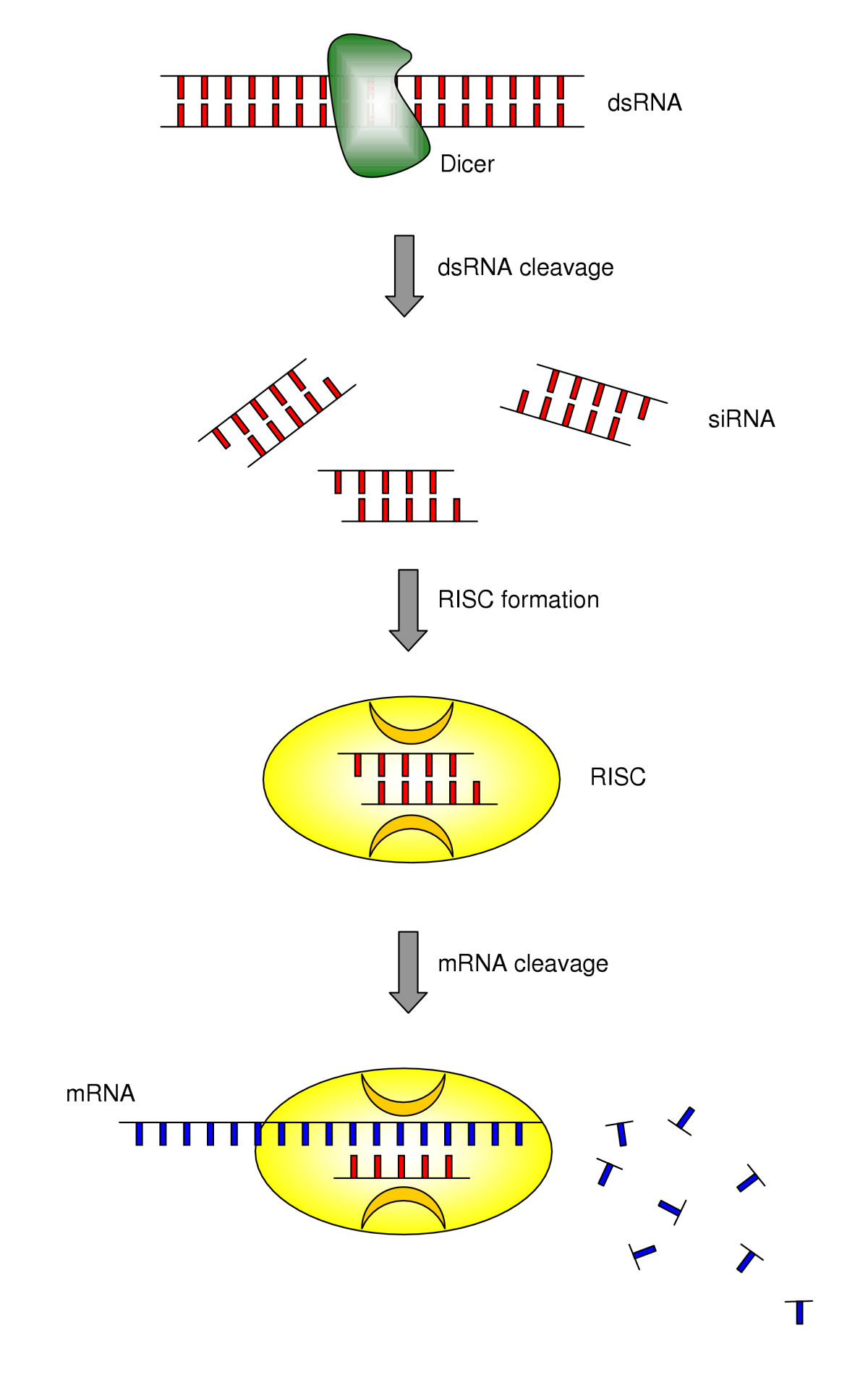 Mechanism of RNA interference (RNAi). The appearance of double stranded (ds) RNA within a cell (e.g. as a consequence of viral infection) triggers a complex response, which includes among other phenomena (e.g. interferon production and its consequences) a cascade of molecular events known as RNAi. During RNAi, the cellular enzyme Dicer binds to the dsRNA and cleaves it into short pieces of ~ 20 nucleotide pairs in length known as small interfering RNA (siRNA). These RNA pairs bind to the cellular enzyme called RNA-induced silencing complex (RISC) that uses one strand of the siRNA to bind to single stranded RNA molecules (i.e. mRNA) of complementary sequence. The nuclease activity of RISC then degrades the mRNA, thus silencing expression of the viral gene. Similarly, the genetic machinery of cells is believe to utilize RNAi to control the expression of endogenous mRNA, thus adding a new layer of post-transciptional regulation. RNAi can be exploited in the experimental settings to knock down target genes of interest with a high specific and relatively easy technology